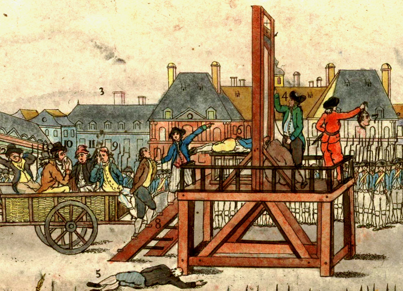 The execution of Robespierre and his supporters on 28 July 1794. Note: the beheaded man (6) is not Robespierre, but Couthon: Maximilien Robespierre (10) is shown sitting on the cart, dressed in brown, wearing a hat, and holding a handkerchief to his mouth. His younger brother Augustin (8) is being led up the steps to the scaffold.